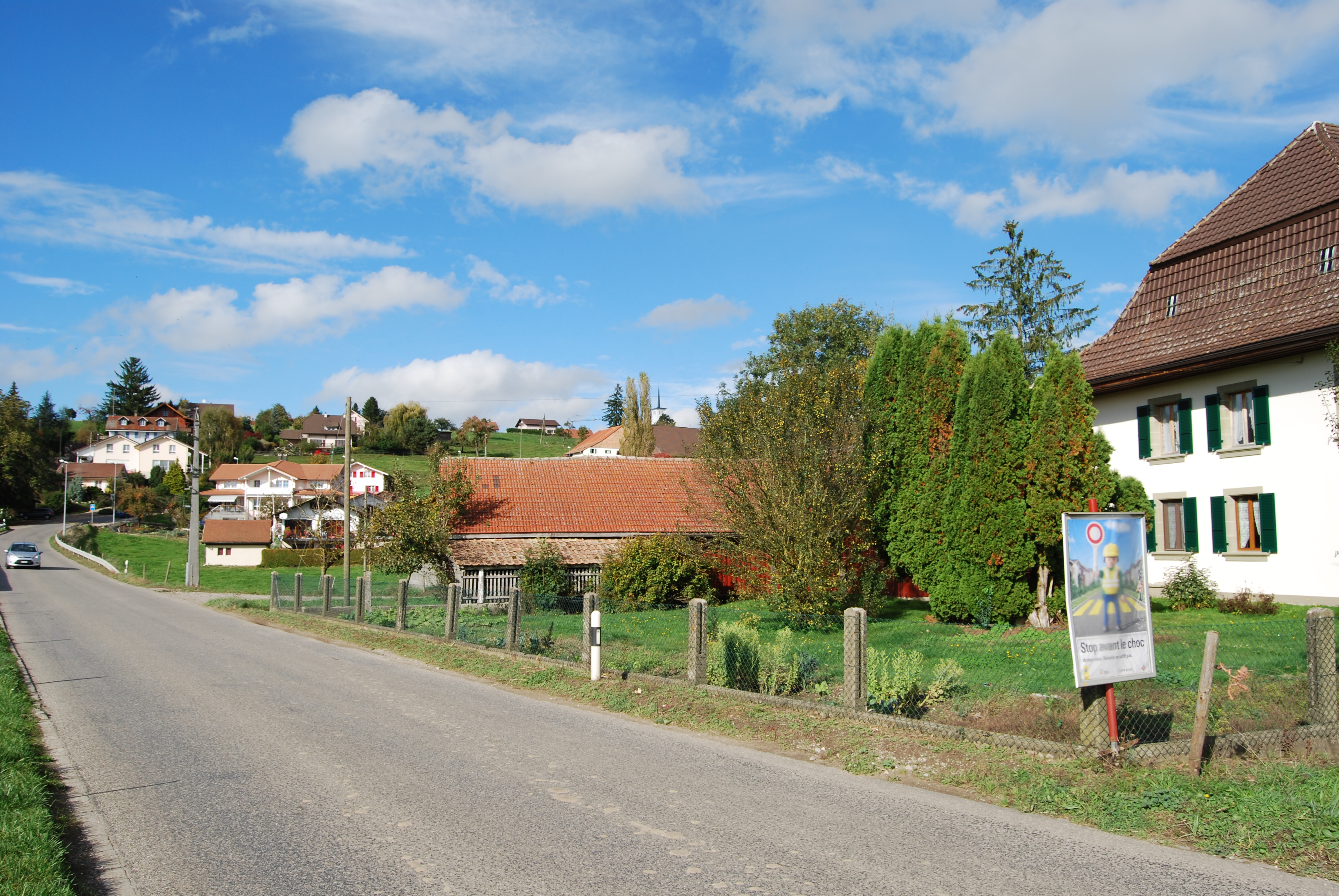 Noréaz, canton of Fribourg, SwitzerlandEsperanto: Noréaz, Kantono Friburgo, Svislando